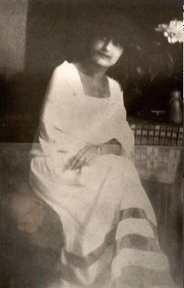 Ketevan Magalashvili. 1922